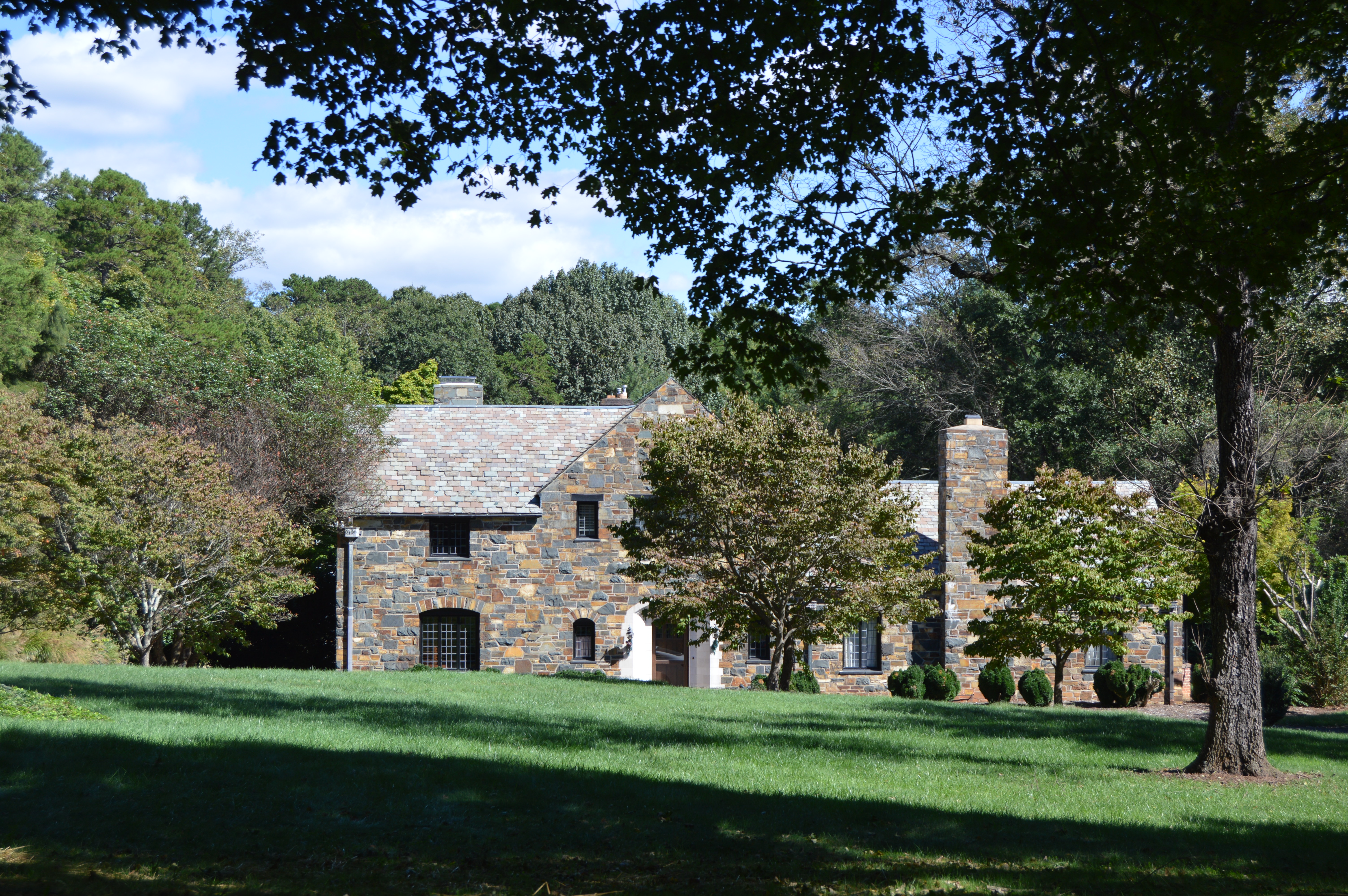 Front of the James B. and Diana M. Dyer House, located at 1015 W. Kent Road in Winston-Salem, North Carolina, United States. Built in 1931, it is listed on the National Register of Historic Places.